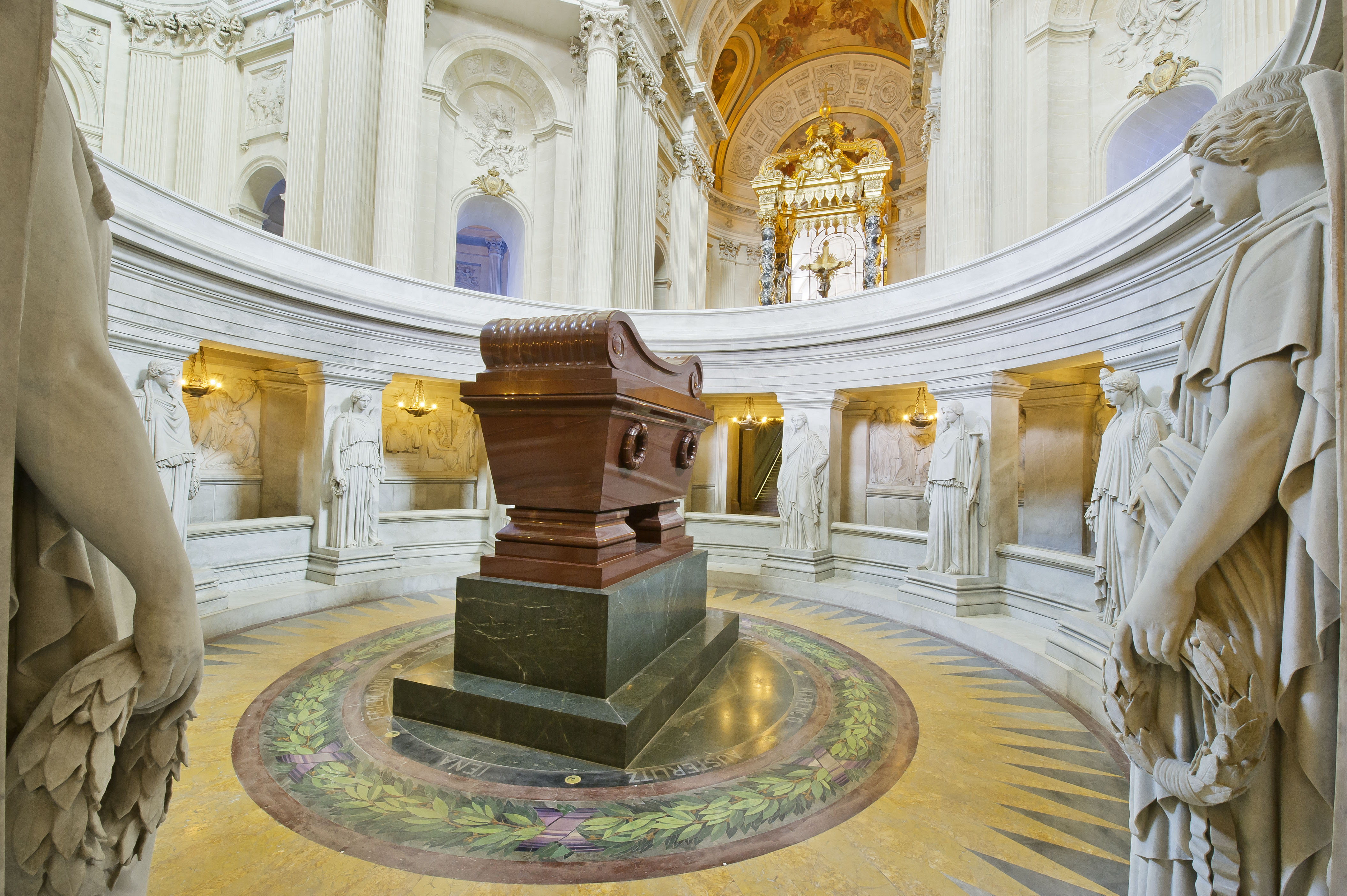 Tombeau de Napoléon